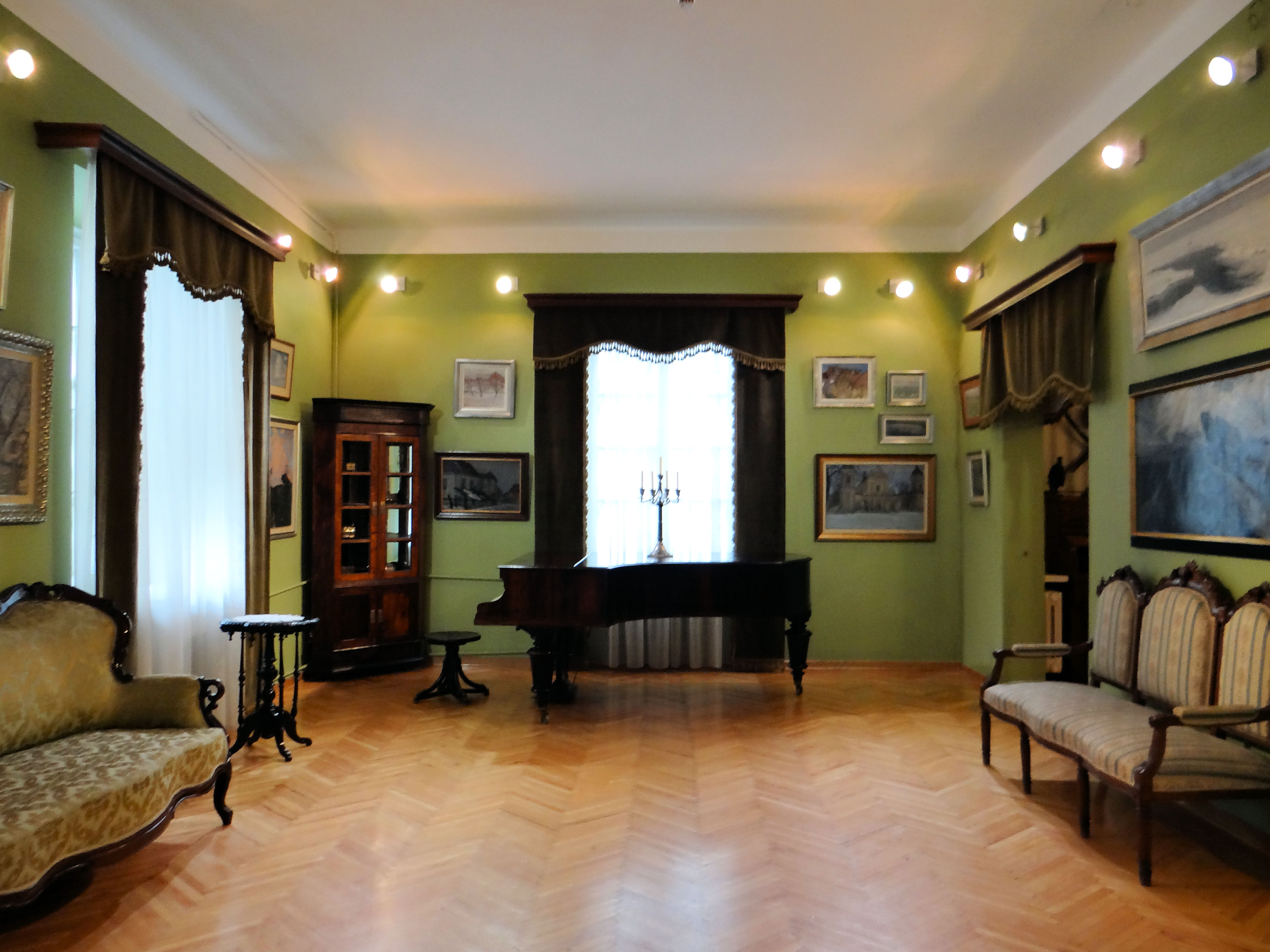 Internal of Small Synagogue in Tykocin (museum)